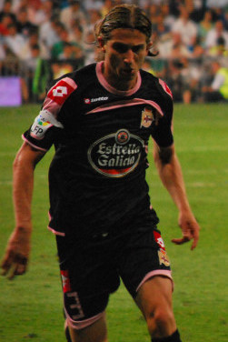 Filipe Luís Kasmirski playing for Deportivo, 29 August 2009